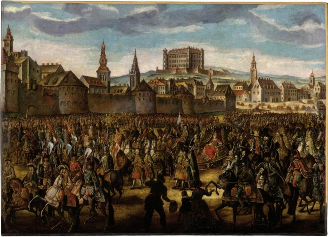 Coronation of Maria Theresa, 1741, Pressburg, by Hertz